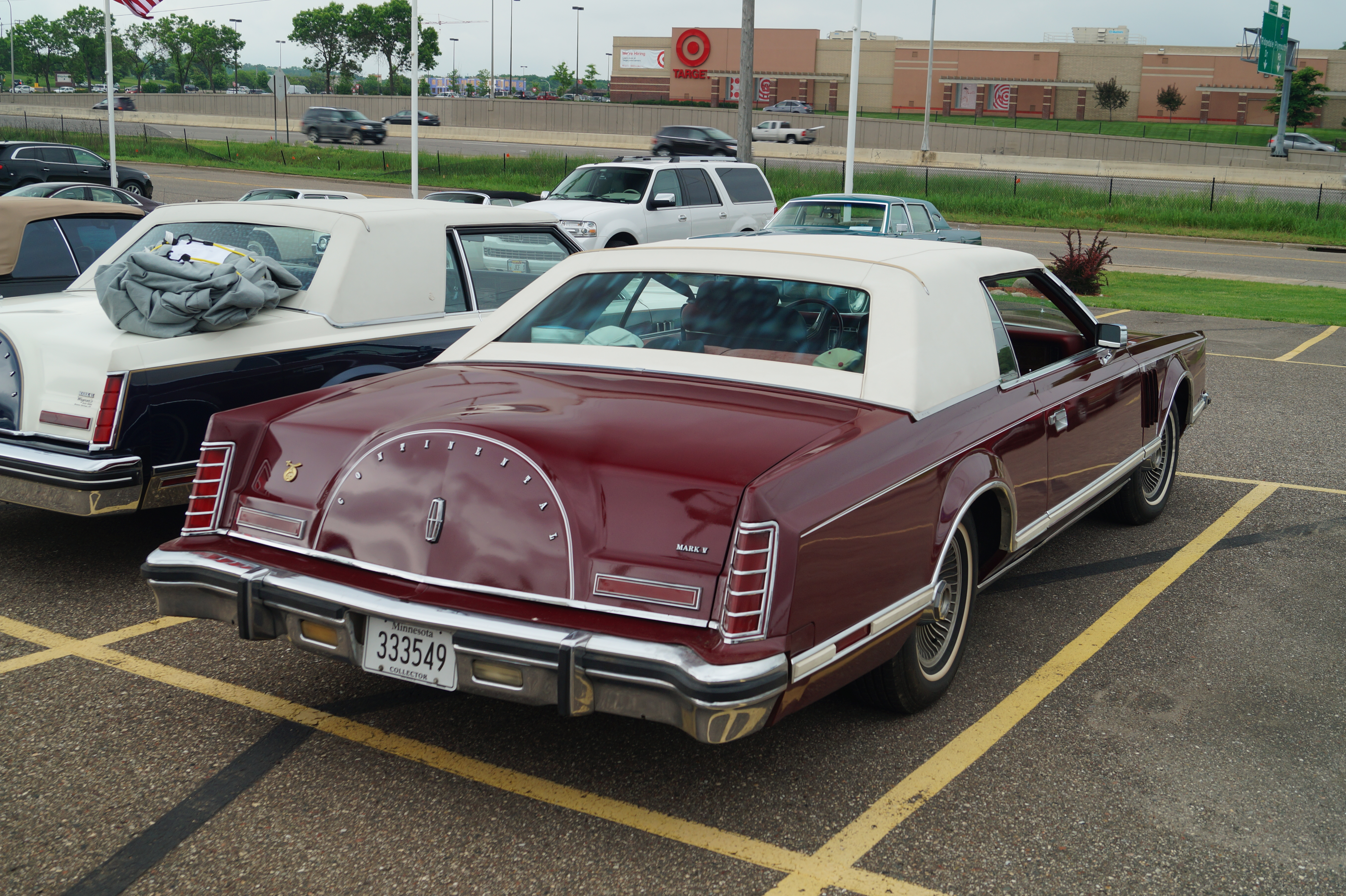 Lincoln & Continental Owners' Club North Star Region 8th Annual Classic Lincoln Car Show Morrie's Minnetonka Ford-Lincoln Minnetonka, Minnesota Click here for more car pictures at my Flickr site.